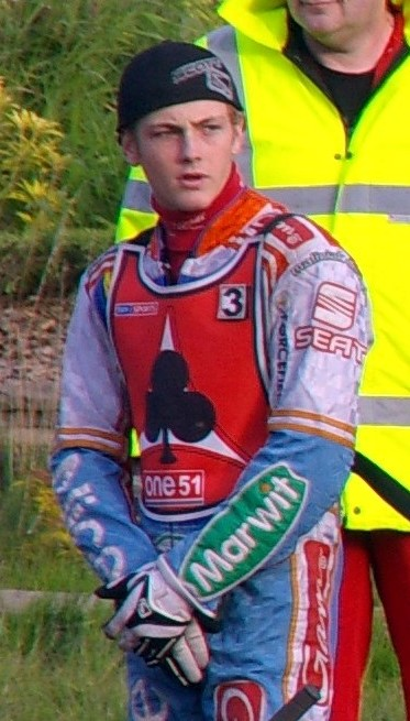 Darcy Ward, guesting for Belle Vue